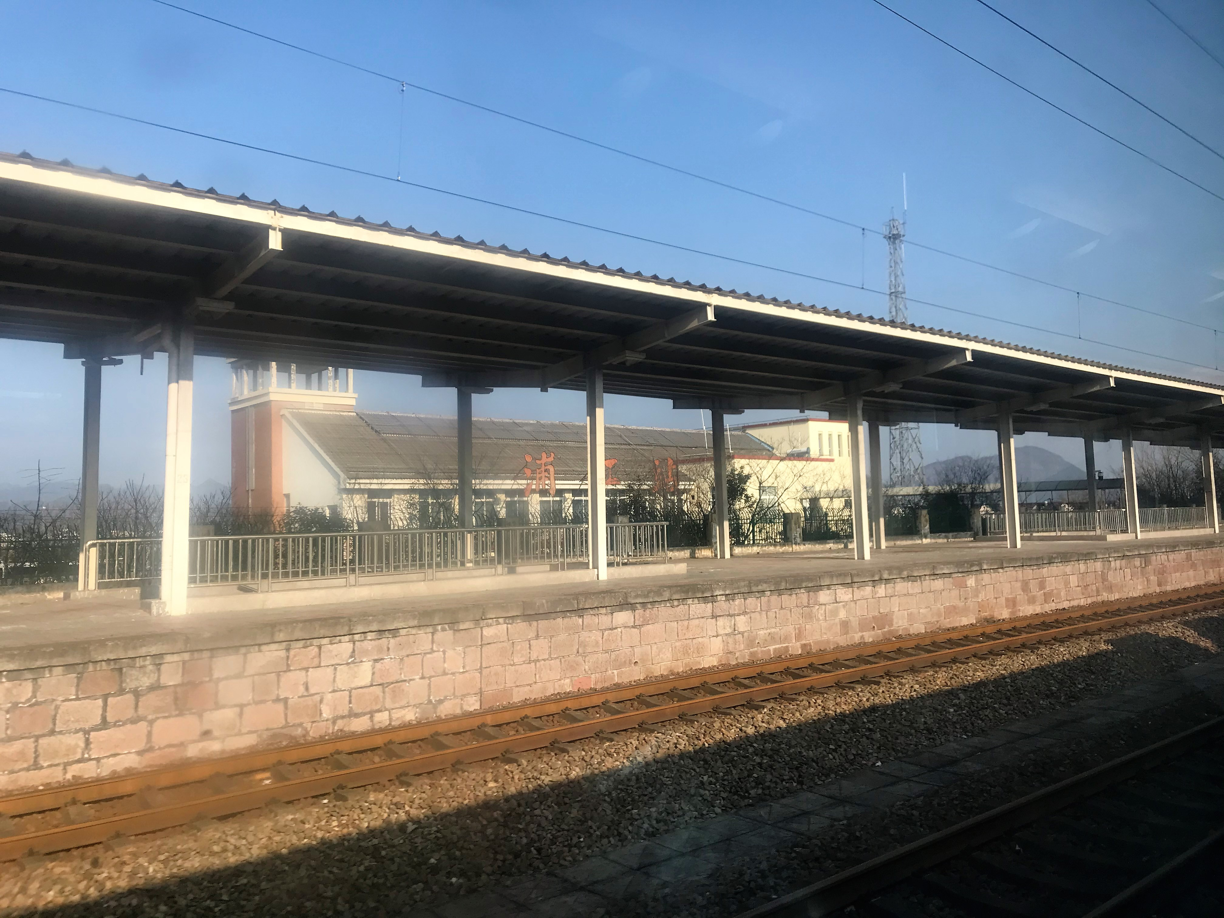 202001 Station Building of Pujiang